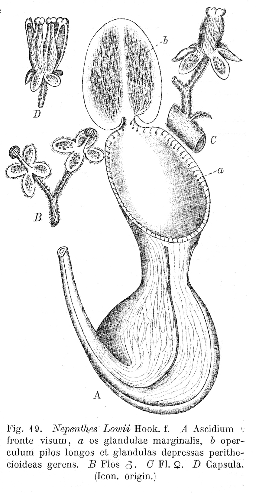 Illustration of Nepenthes lowii